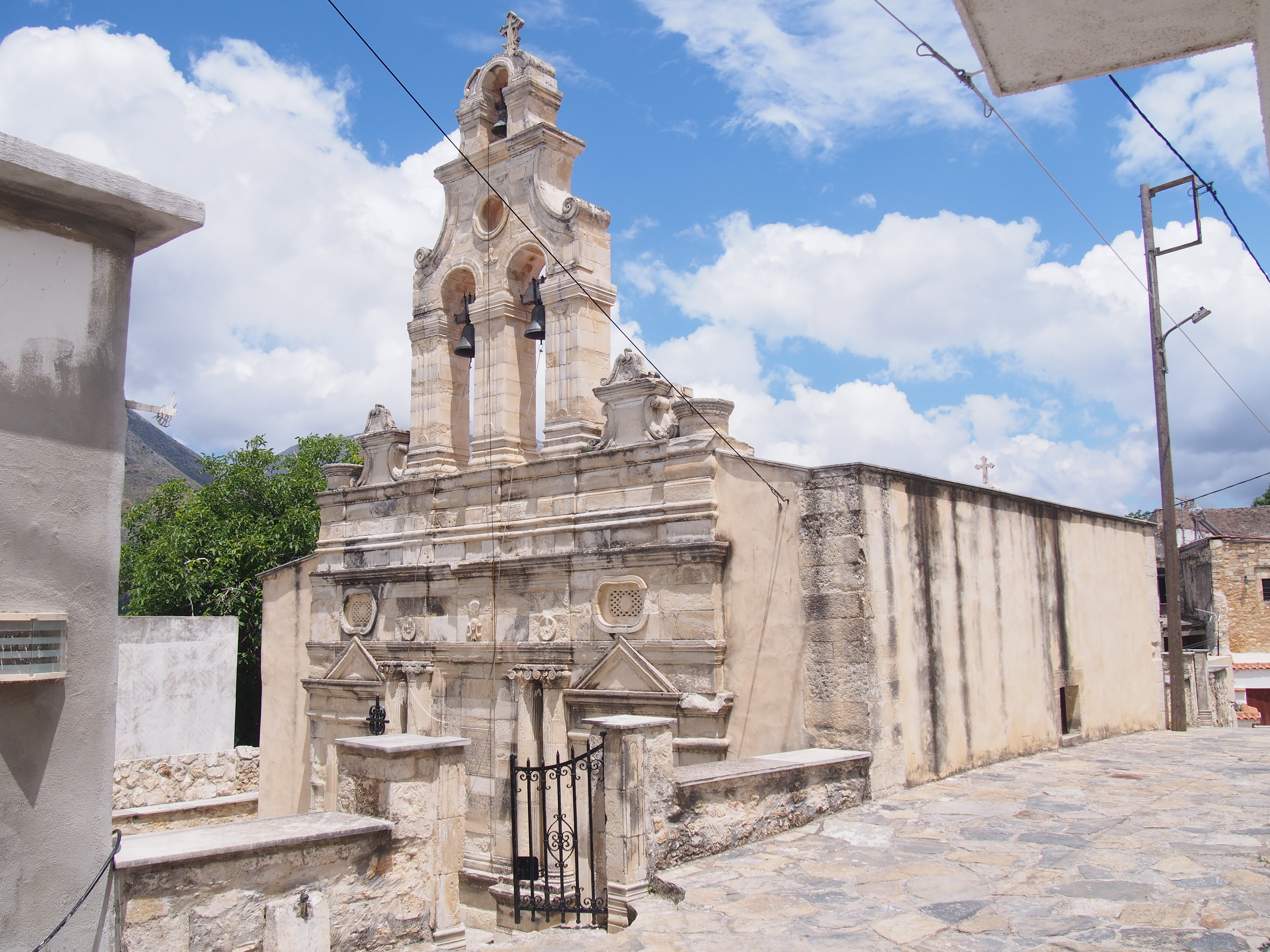 The 19th century church dedicated to the Dormition of Mary at Garazo.